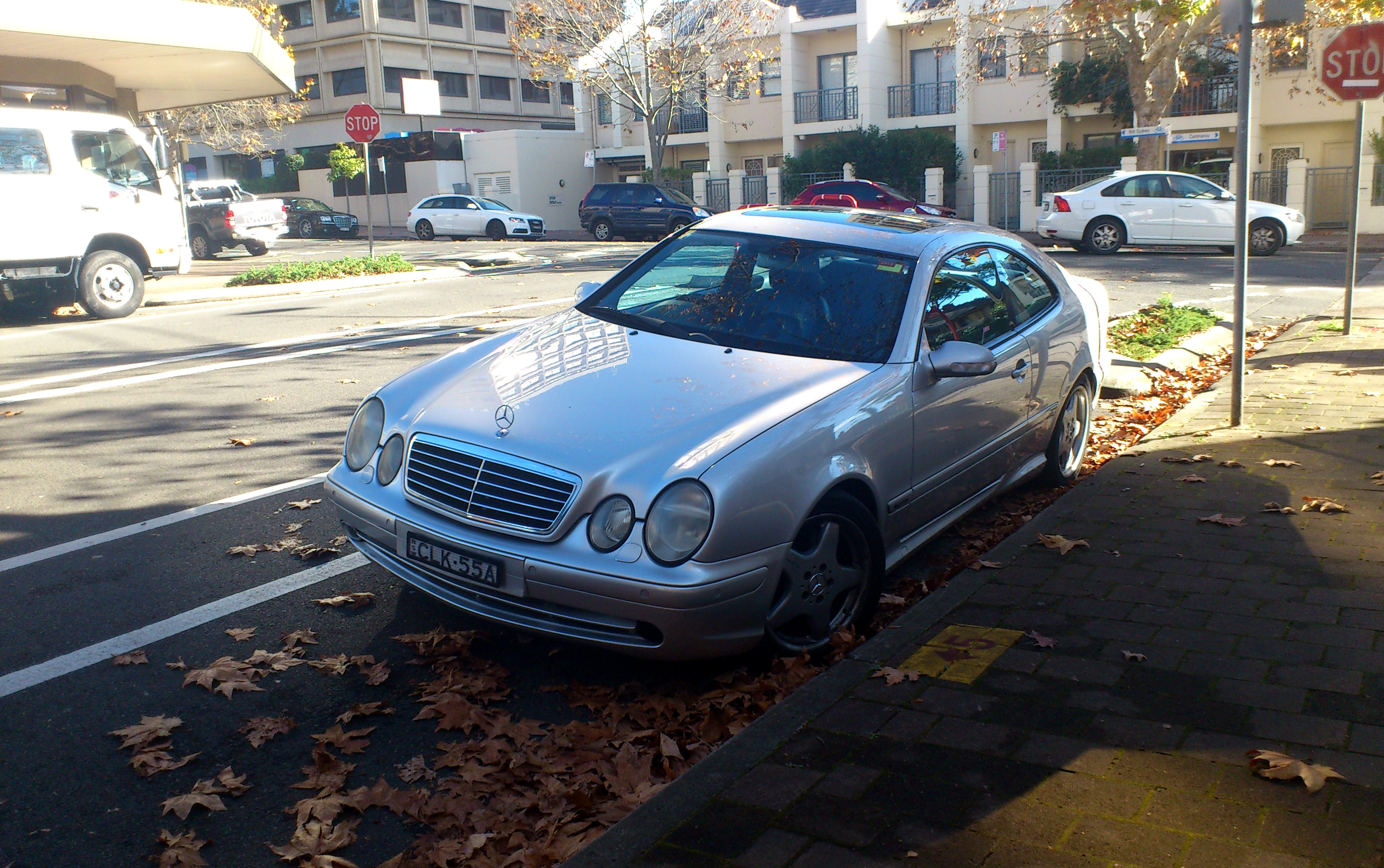 These first generation CLK coupes were actually based off the W202 C class platform, although the front end more closely resembles the W210 E class of the time, so the front end always looks a little 'cramped' to me.